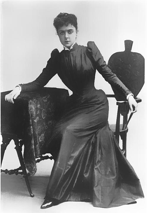 Photograph of American actress Marie Burroughs (1866-1926) in the November 21, 1896 issue of The Illustrated American (p.6)